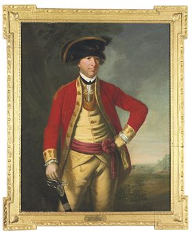 General Eyre Massey (1715/20-after 1803), Governor of Limerick